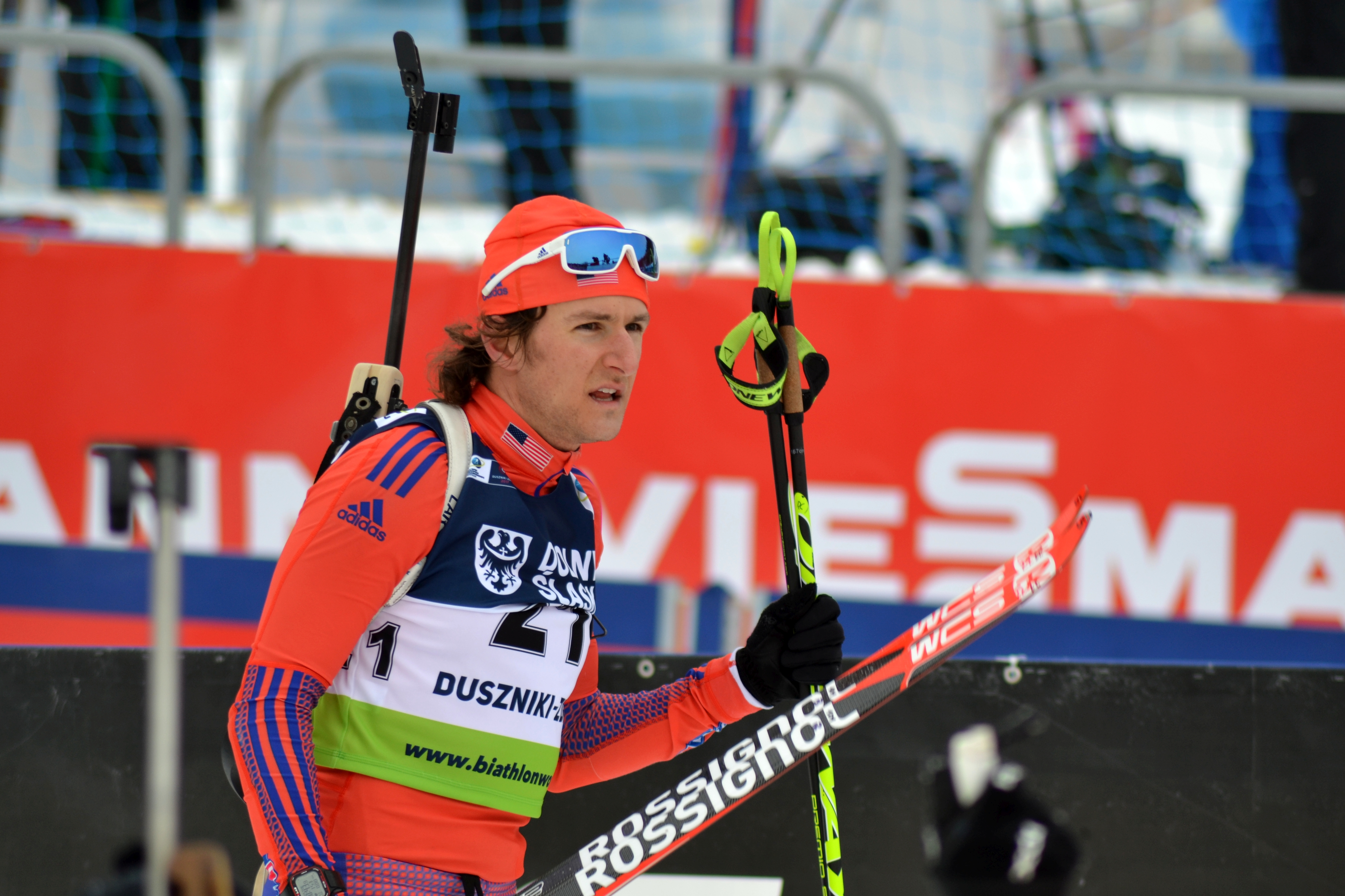 Open European Championships Biathlon 2017, Individual Men's race, held on January 25th.